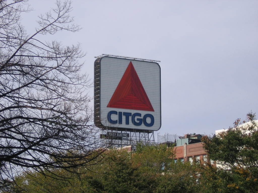 The Citgo sign sitting on the Boston University Bookstore Mall. It was photographed from Lansdowne St. in Boston, MA.